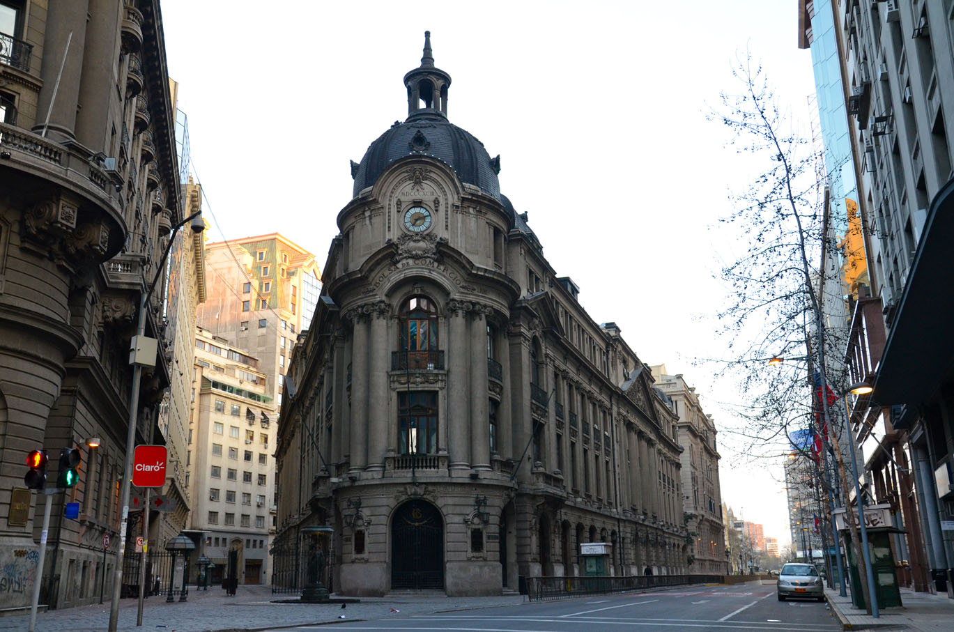 This is a photo of a national monument in Chile: 841